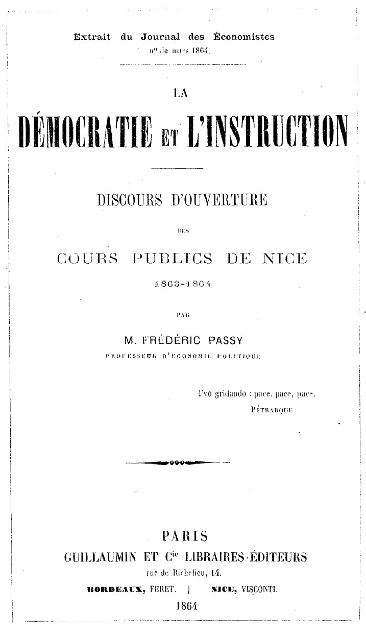 Front page of Frédéric Passy's La démocratie et l'instruction : discours d'ouverture des cours publics de Nice, 1863-1864, published in 1864